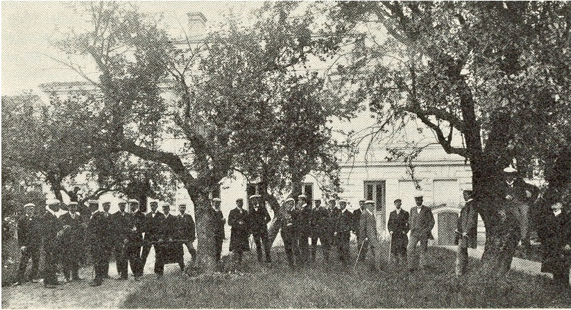 A group of students in the garden outside the building of Gästrike-Hälsinge nation, student society at Uppsala University in Sweden.